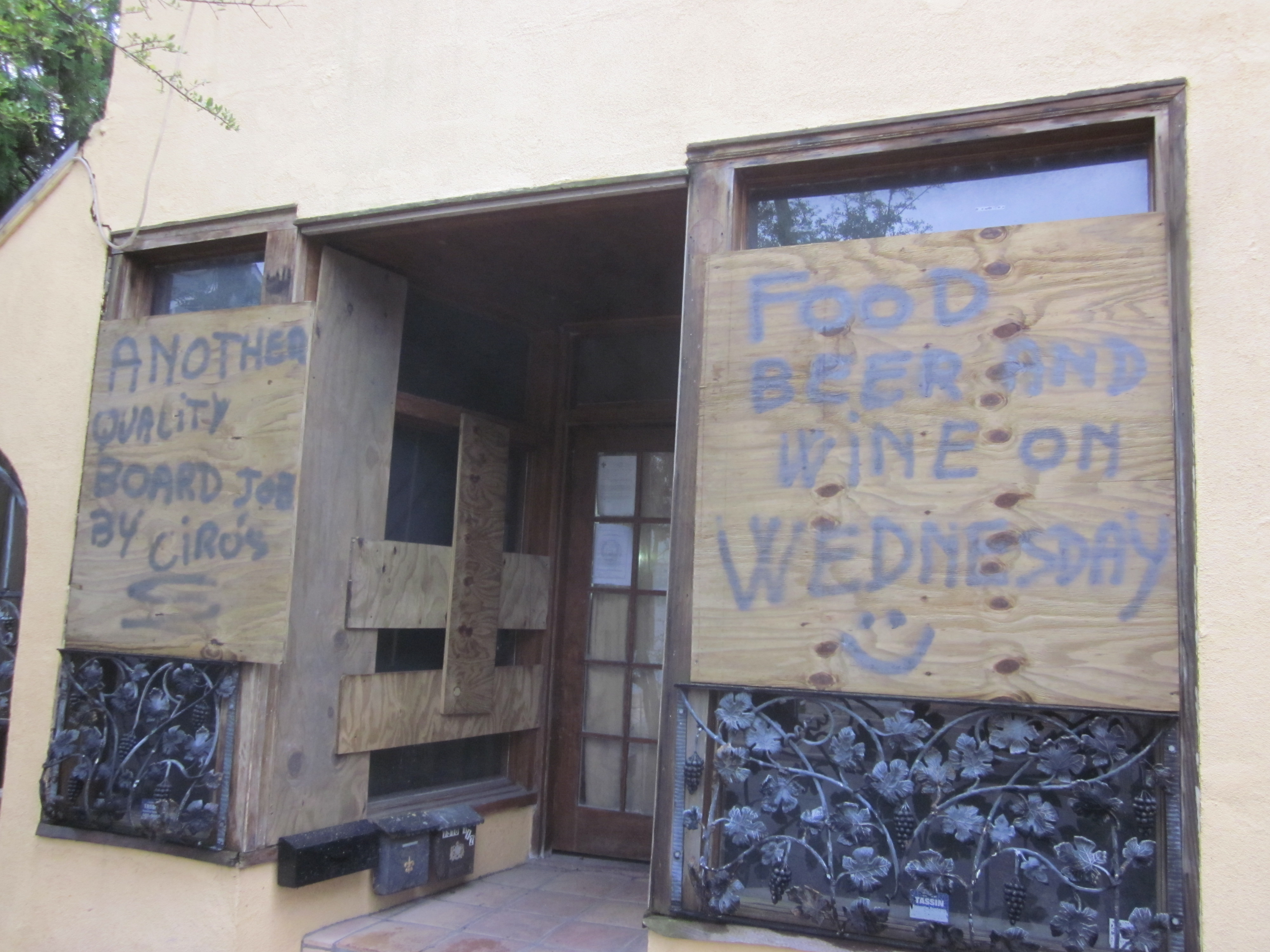 Carrollton section of New Orleans: Restaurant building boarded up in preparation for Hurricane Isaac. Inscription states intention to reopen Wednesday. (Tropical storm force winds and severe rains were still ongoing on Wednesday; electricity was not restored to this neighborhood until Sunday.)